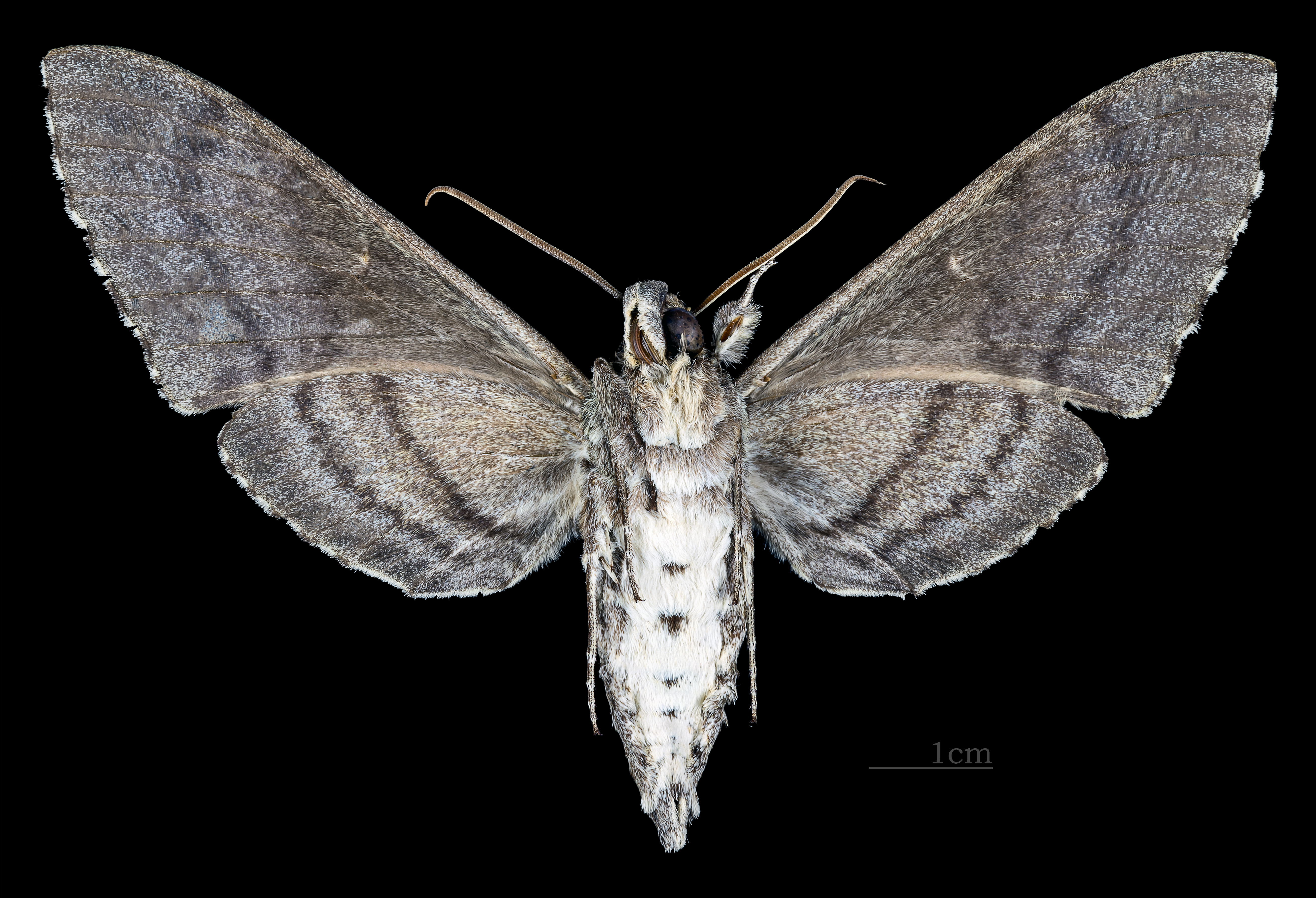 Manduca muscosa - △ Ventral side Collection of the Mathematician Laurent Schwartz